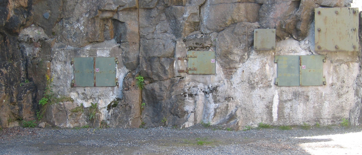 A built-in caponier at Rödberget fort, part of Boden Fortress.